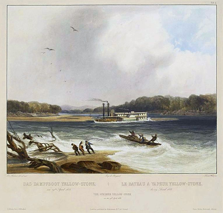 Yellowstone, Missouri River steamboat, depicted as aground on 19 April 1833, in this 1844 print by Lucas Weber based on a painting by Karl Bodmer.